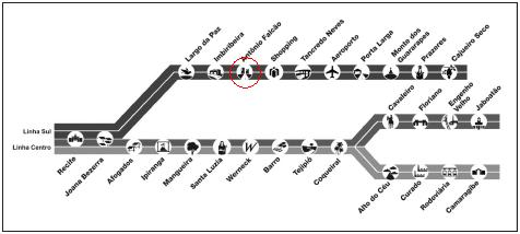 Map showing where antonio falcão station is located in recife´s metro system.